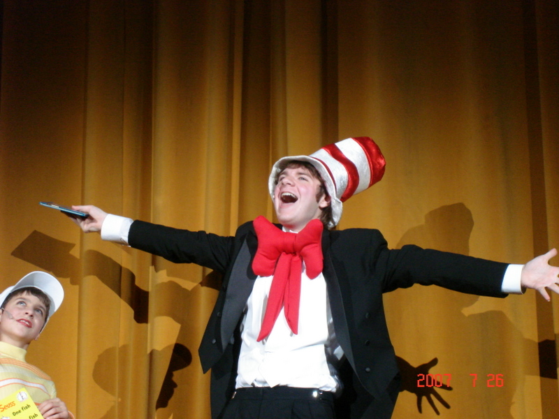 Jacob Myers in Seussical